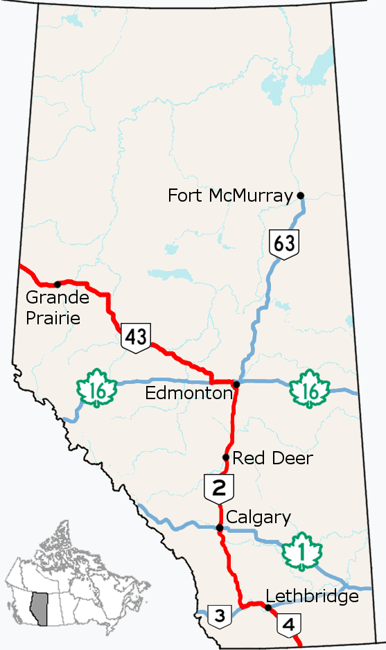 Alignment of the Export Highway in Alberta, Canada, a portion of the CANAMEX Corridor.